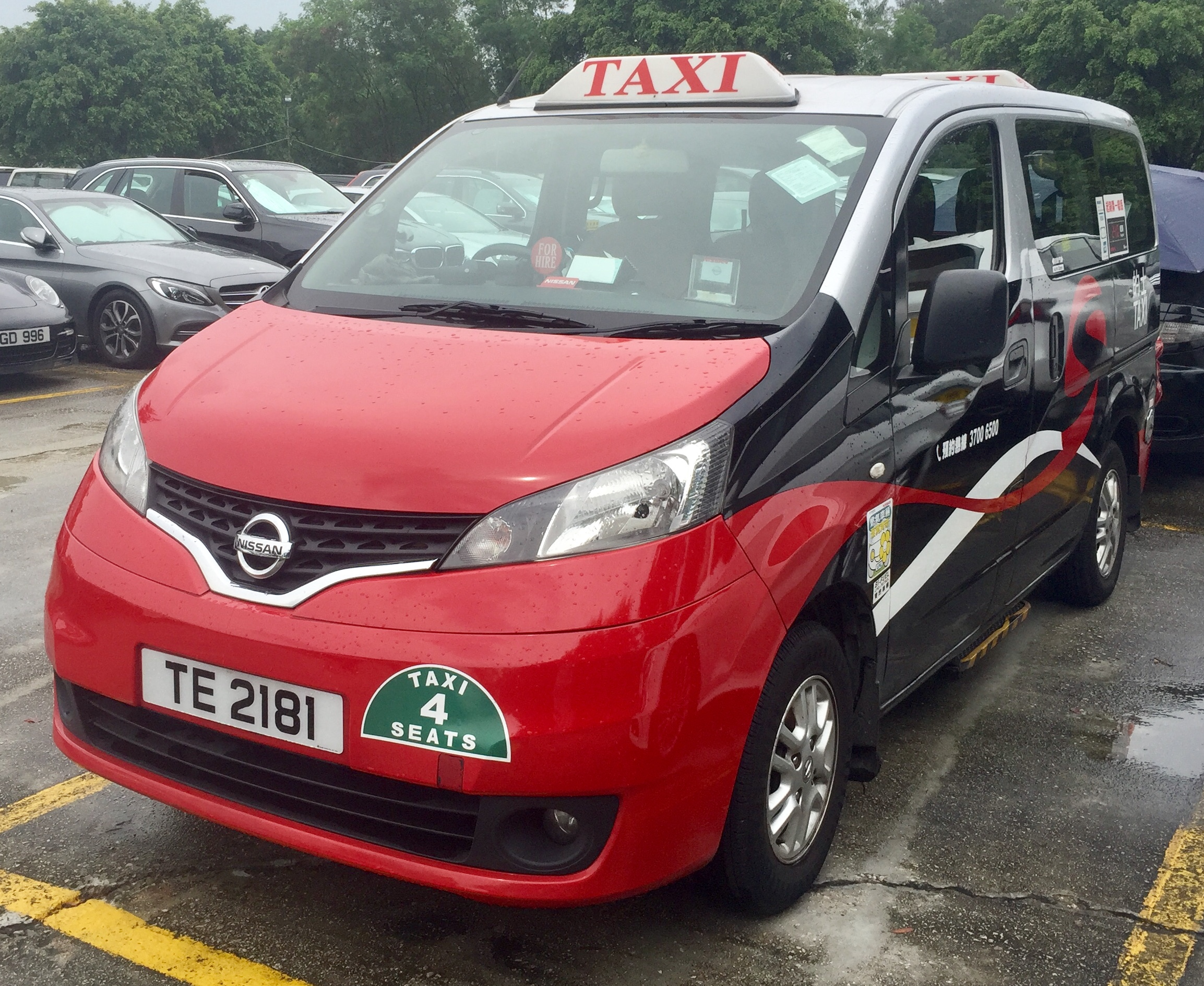 Nissan NV200 in Hong Kong taxi service